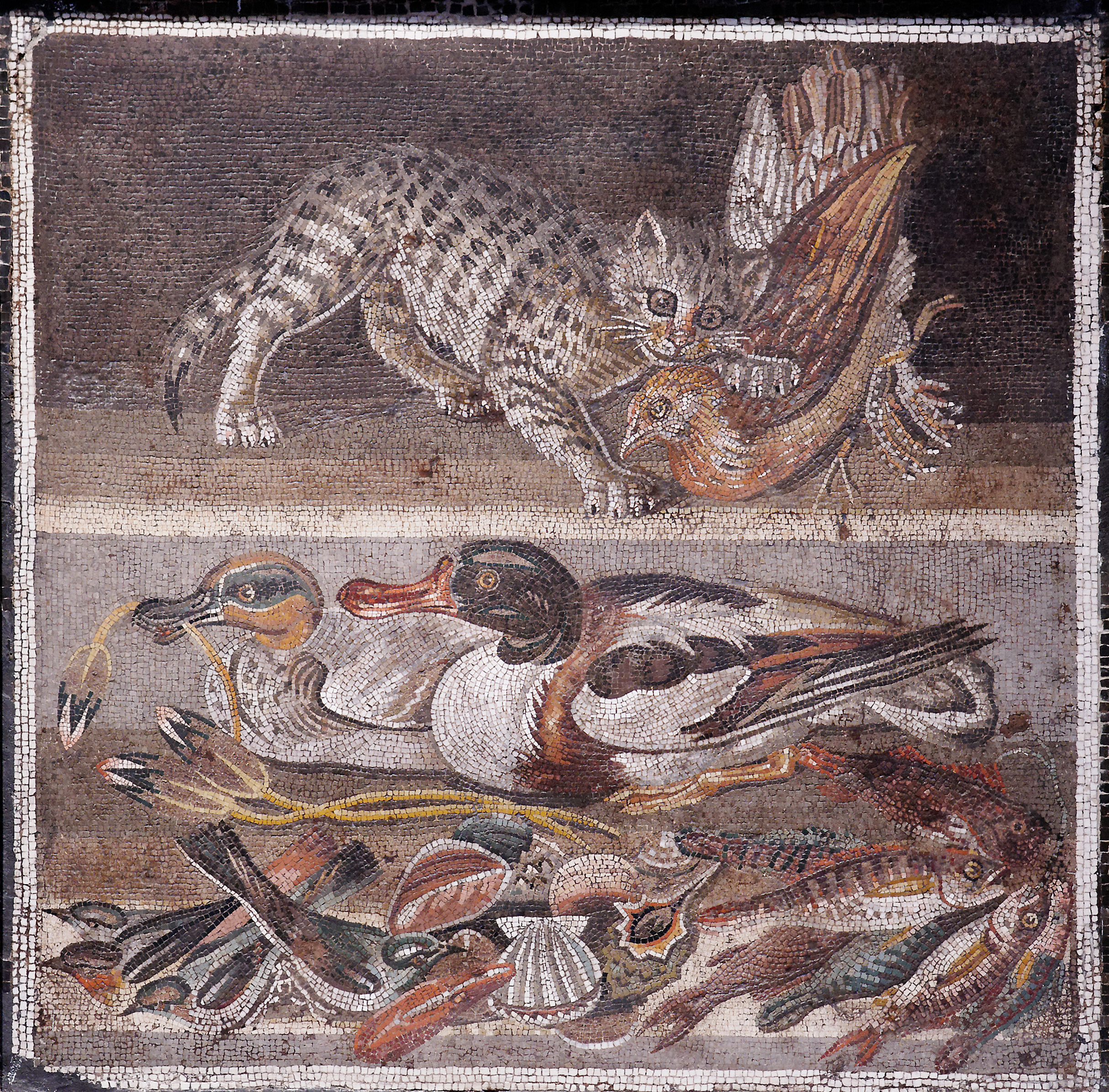 Upper tier : cat with a partridge in her mouth; lower tier: ducks (on the left a male Eurasian Teal, on the right a Common Shelduck), birds, fish and shellfish. Roman mosaic.